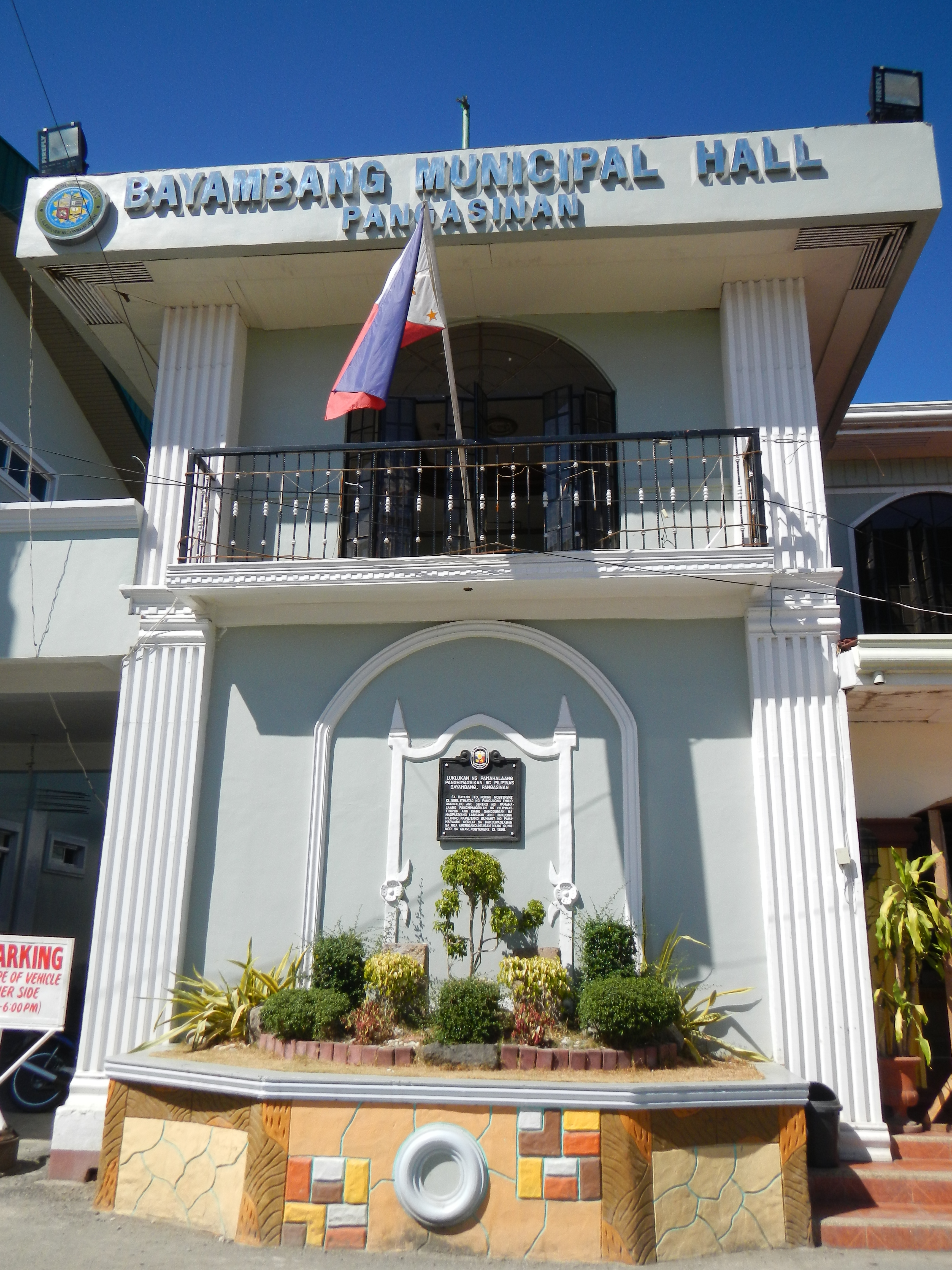 Bayambang, Pangasinan[1]